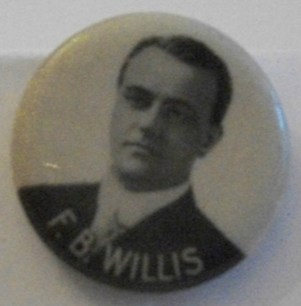 F. B. Willis, Idaho